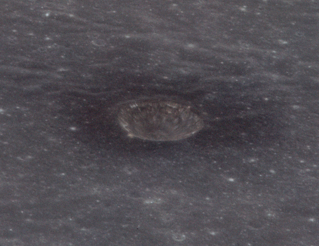 Oblique view of Beaumont L crater, on the moon. Facing southwest. Dark halo is present.